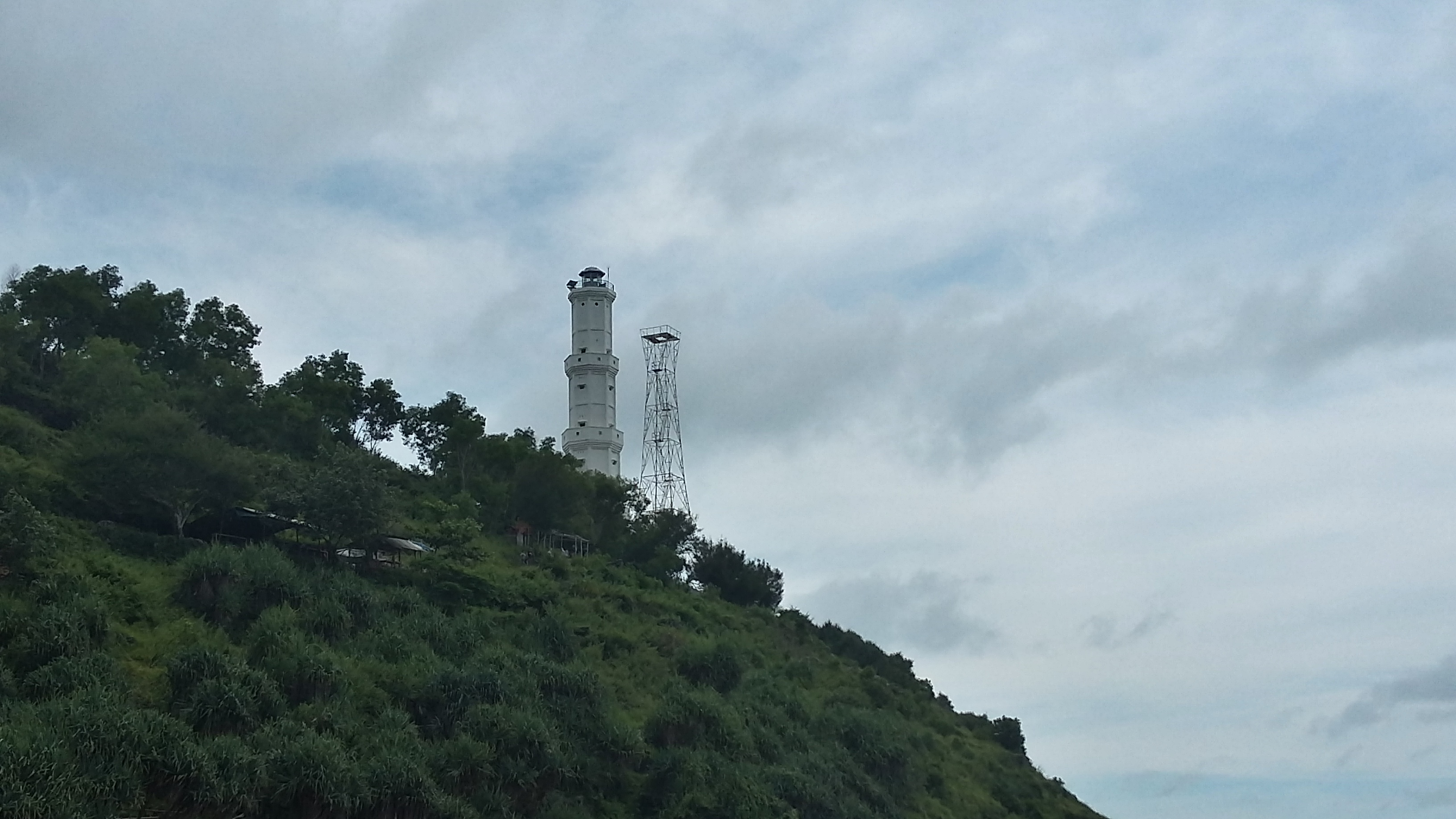 An abandoned lighthouse stands in a cliff in Baron Beach, Gunungkidul Regency, Yogyakarta